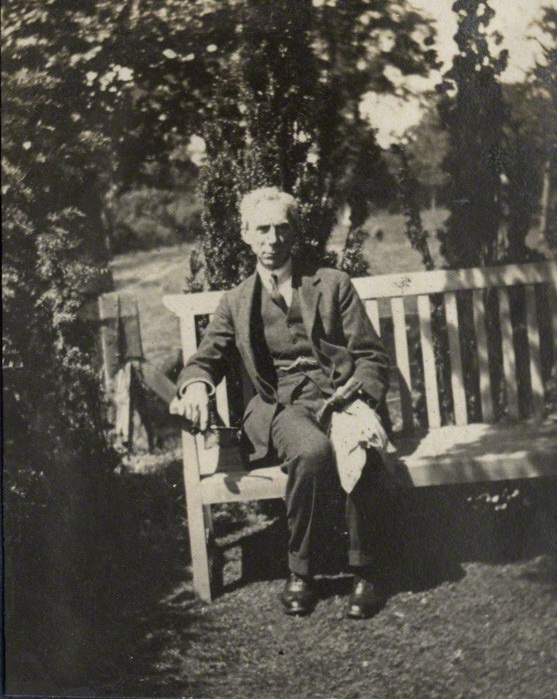 Bertrand Russell in 1920 (picture taken by Lady Ottoline Morrell)